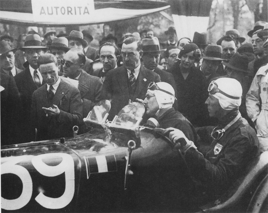 George Eyston and Count Luro Lurani in MG K3 Magnette (entry #39) at 1933 Mille Miglia on 9 April. They ended in 21st place.[1] This is probably the 1933 MG Magnette K3 s/n K3003 that Nuvolari lured to victory in Ireland "Tourist Trophi" same year.